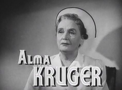 Alma Kruger in Dr. Gillespie's New Assistant - trailer (cropped screenshot)